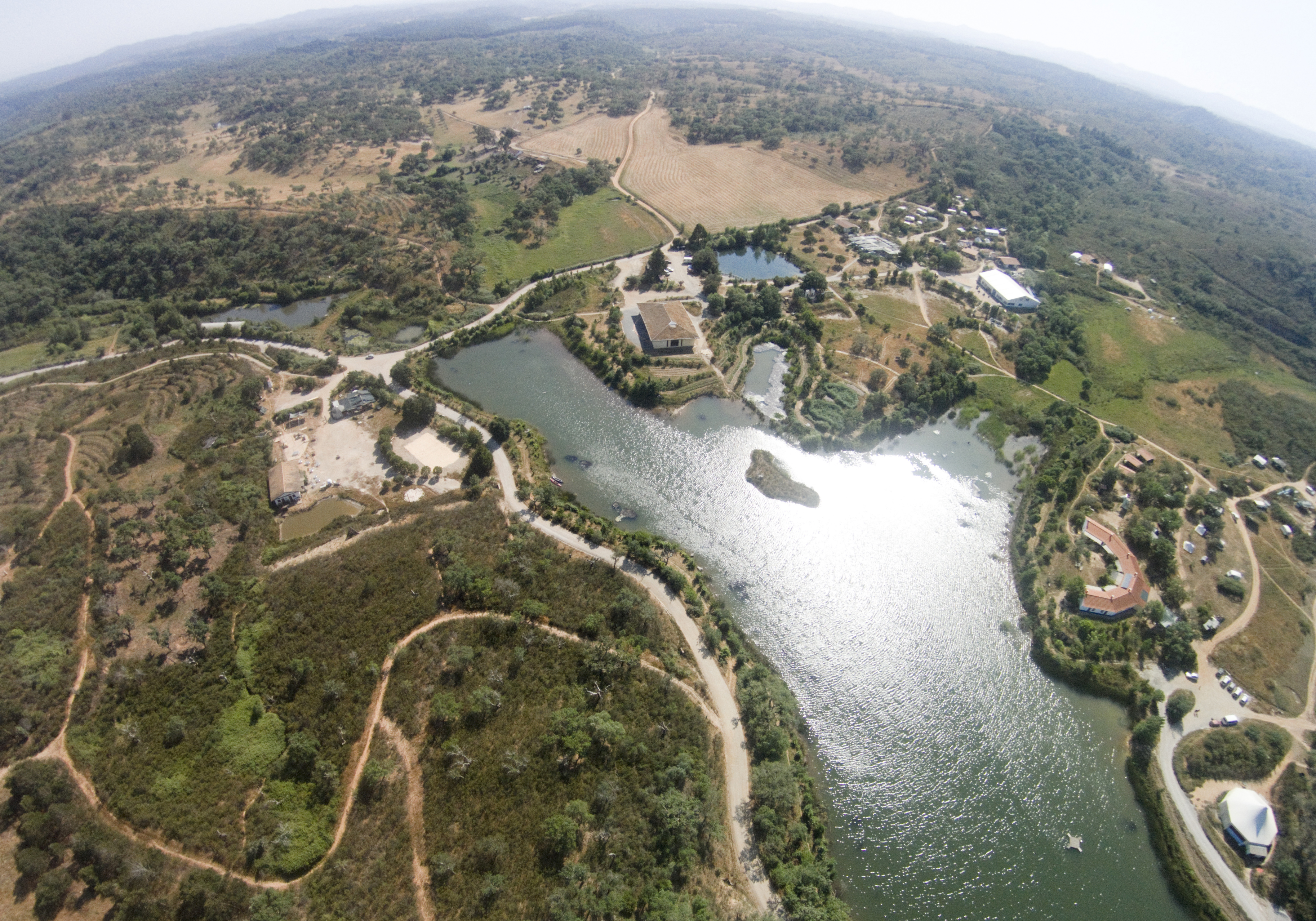 Aerial shot of Tamera with Lake 1, Aula and Campus